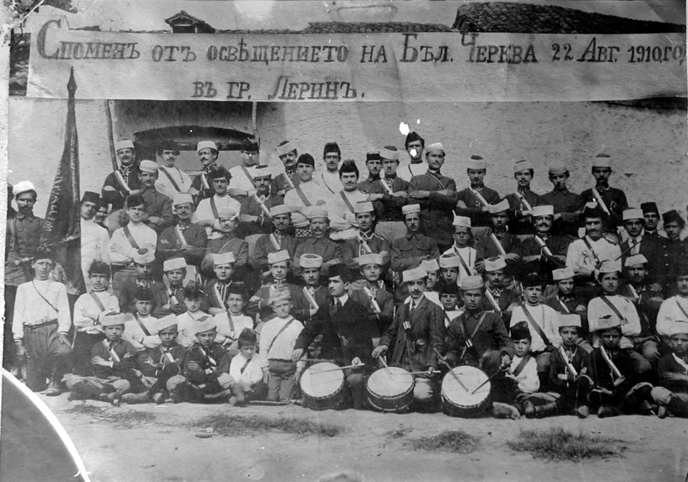 Opening of the Bulgarian Church in Lerin, 1910.